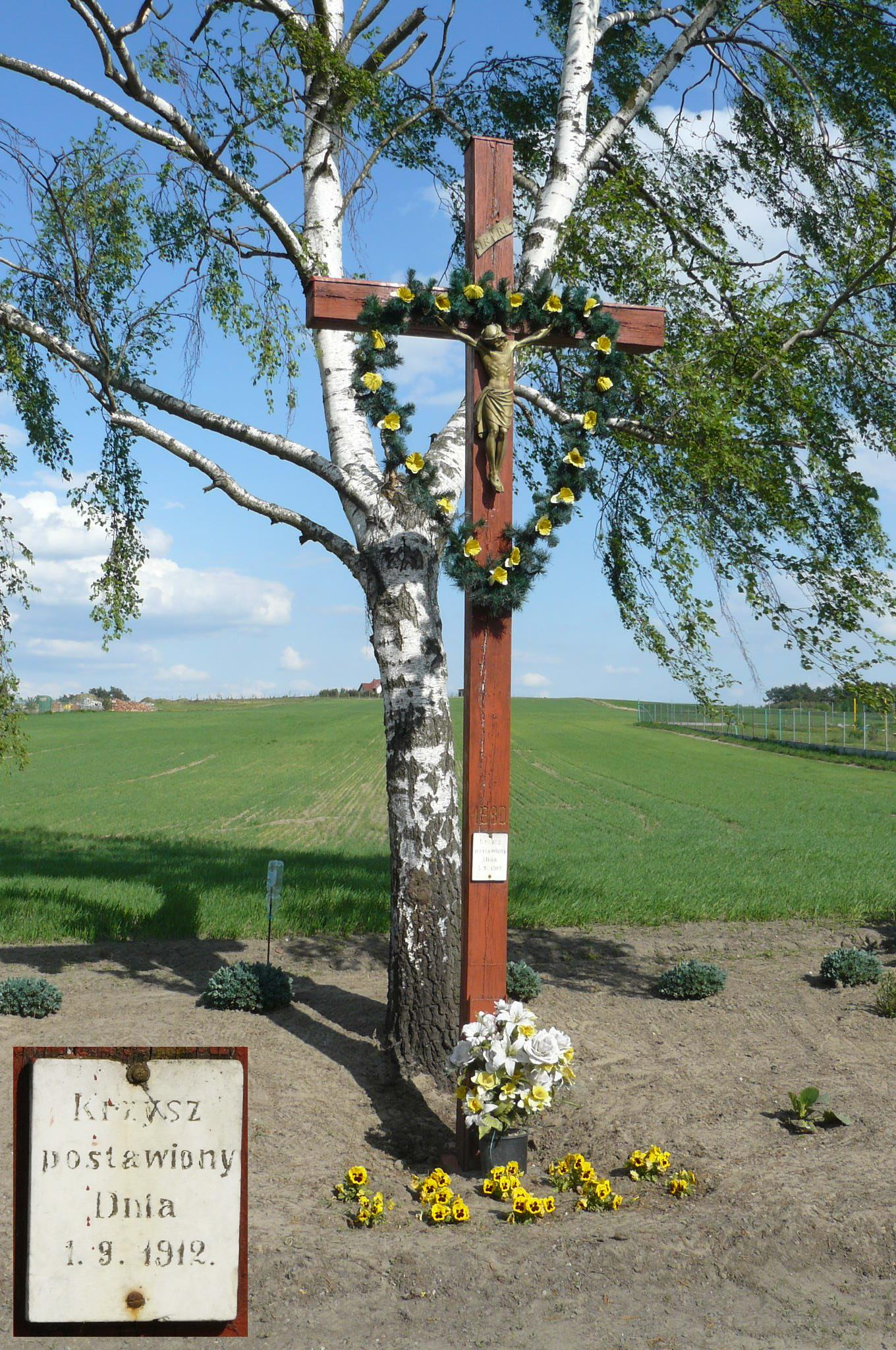 Crucifix in Pawlowice.